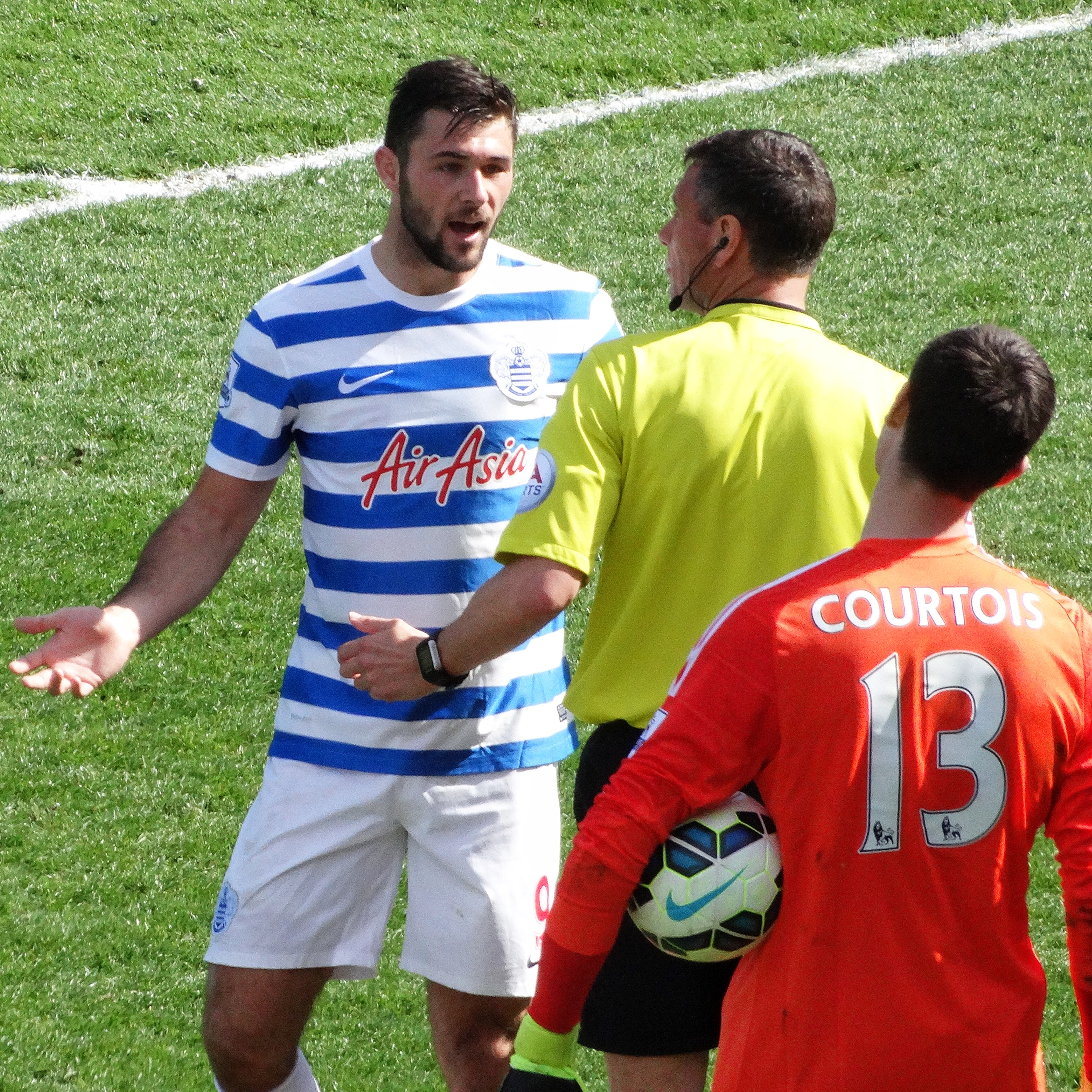 Charlie Austin arguing with referee during a match between QPR and Chelsea in April 2015